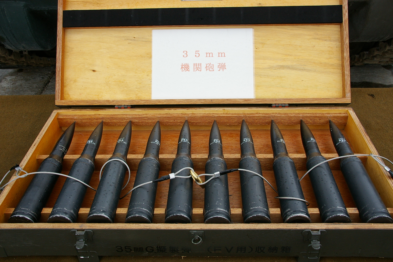 JGSDF 35mm auto canon ammunition for Type89 FV.